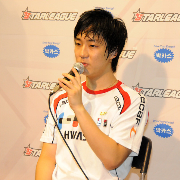 Lee Jae-dong (also known as Jaedong), a Korean Pro-gamer after his victory in the 2009 Bacchus Starleague.